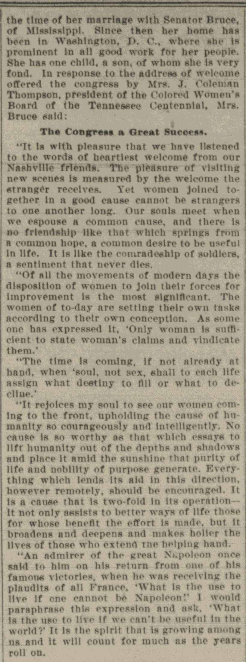 This is a speech given by Josephine Beall Willson Bruce, a black suffragette in the United States, after a conference with the National Association of Colored Women and the National Congress of Colored Women. It champions female suffrage and the uplift of African Americans.